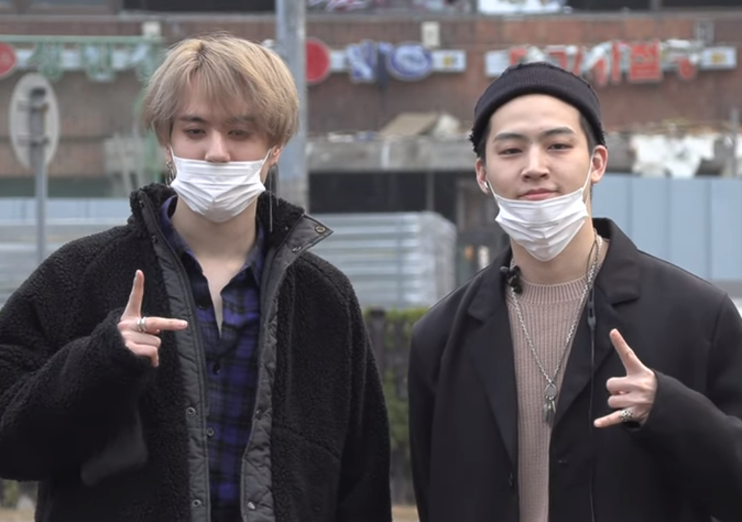 Jus2 going at a Music Bank recording on March 15, 2019.